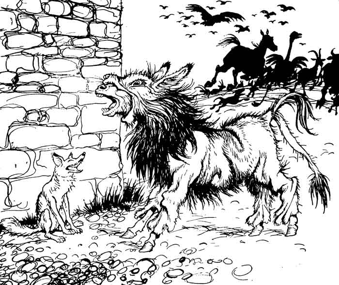 An illustration by Arthur Rackham of a 1912 edition of Aesop's Fables